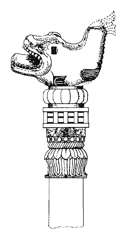 Besnagar Makara pillar capital Complete photograph p.136